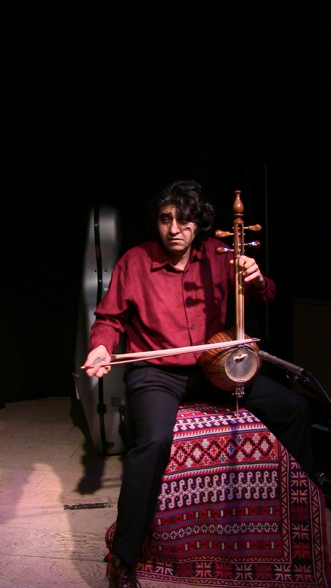 کوردی: Shahriyar Jamshidi with Kamanche on Stage, Burdock, Toronto, Canada